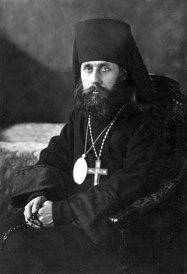 Bishop Arkadiy Ostalsky